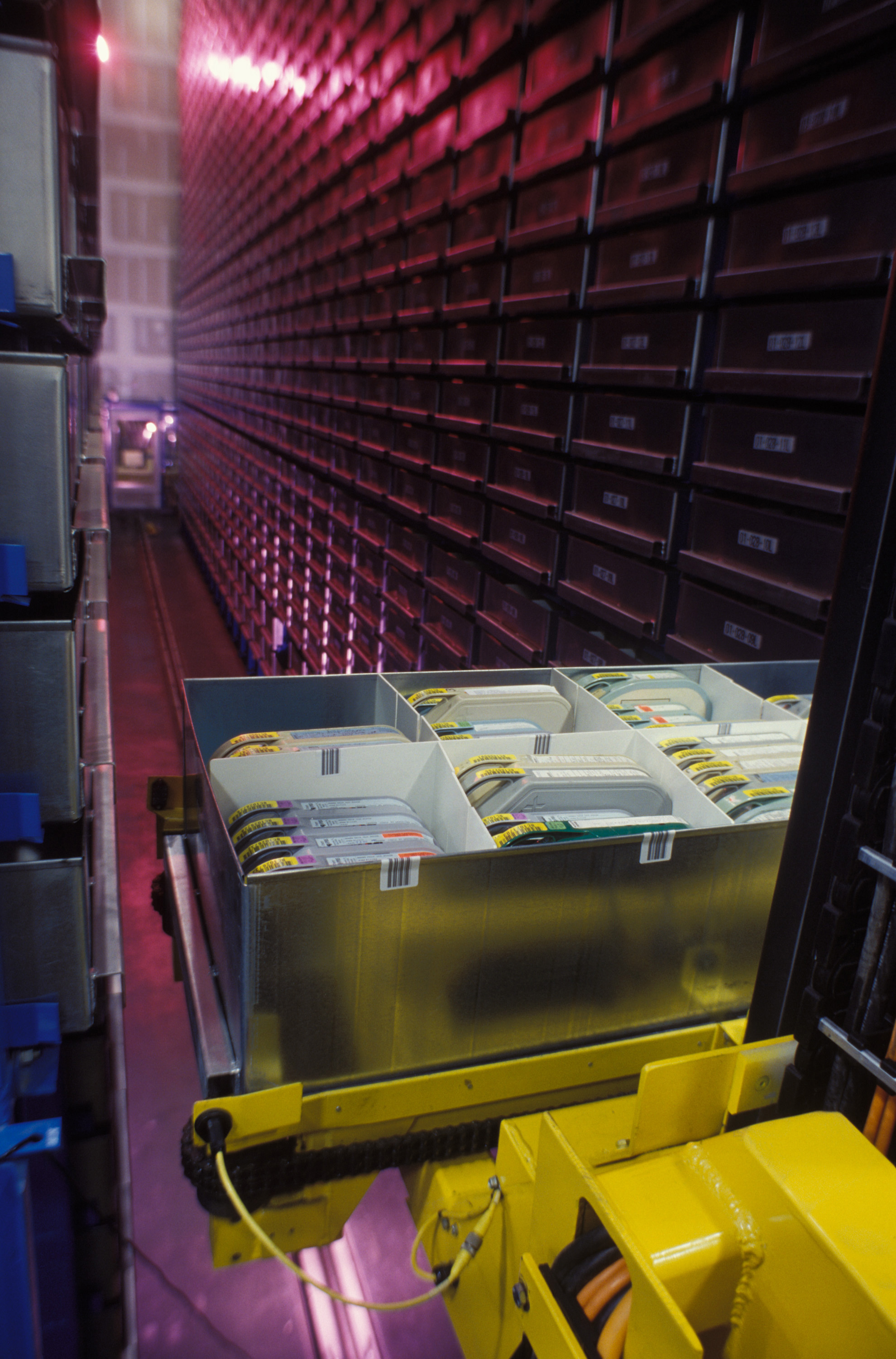 This is an interior view of the Automated Storage and Retrieval System (ASRS) located at the Defense Visual Information Center. Motion media and still media from all the military services are stored here. The ASRS is an environmentally controlled, self-contained, state-of-the-art, robotics track guided system. It is four stories high and about half the size of a football field. This low angle view was taken from the rear of the ASRS with the camera mounted on the robot arm. A bar-coded bin full of motion picture film is ready to be driven forward. Location: March Air Reserve Base, Riverside County, California